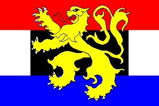 Flag of Benelux